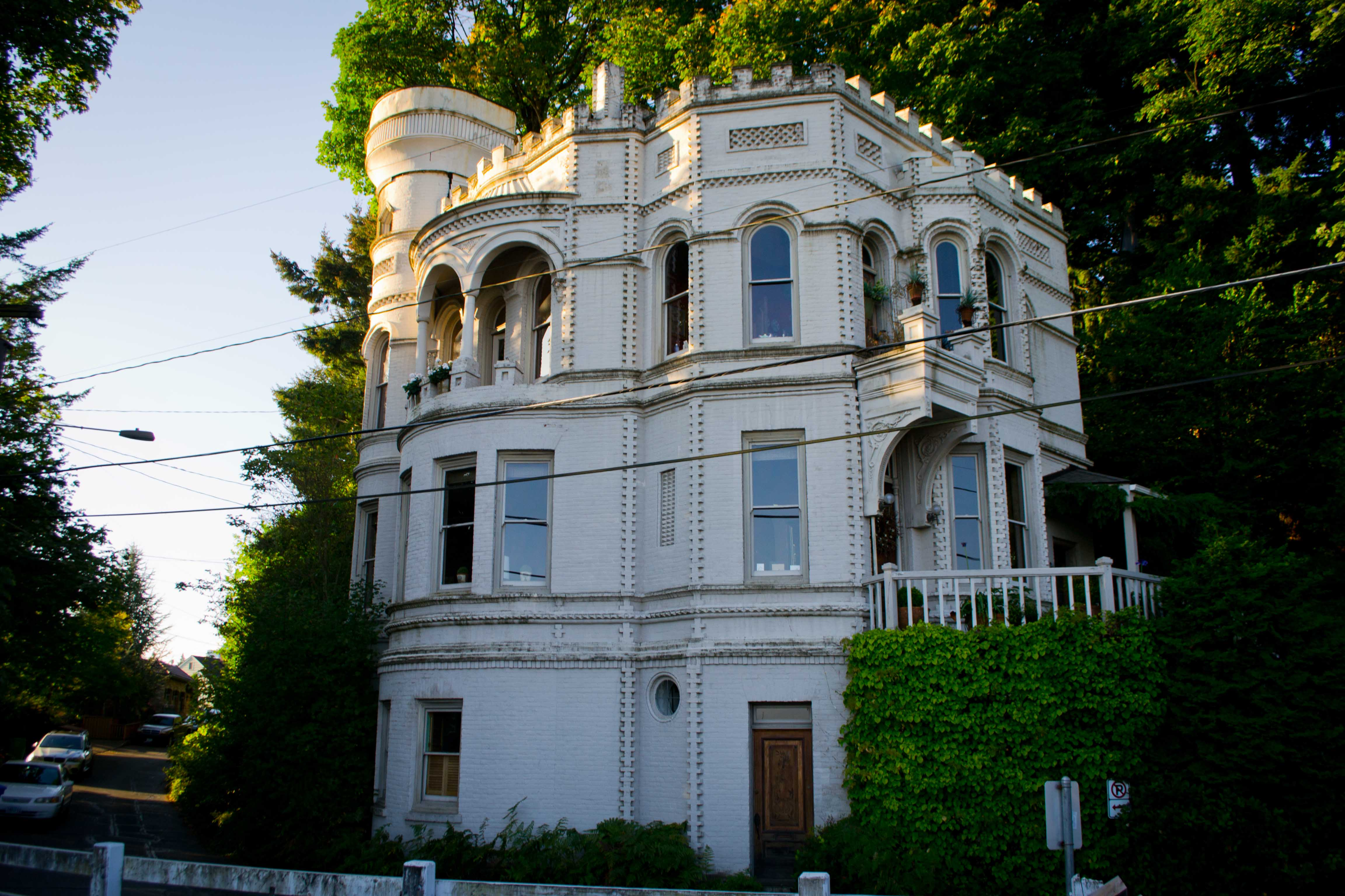 Built in 1893 by Charles Piggott. Originally named Gleall Castle.